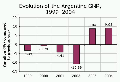 A chart showing the inter-annual variations of the Gross National Product of Argentina, from 1999 (beginning of the last recession) to 2004 (last available data), showing the economic crash and the recovery. I, Pablo D. Flores, made this chart myself based on data from the INDEC ( [Institute of National Statistics and Census.]